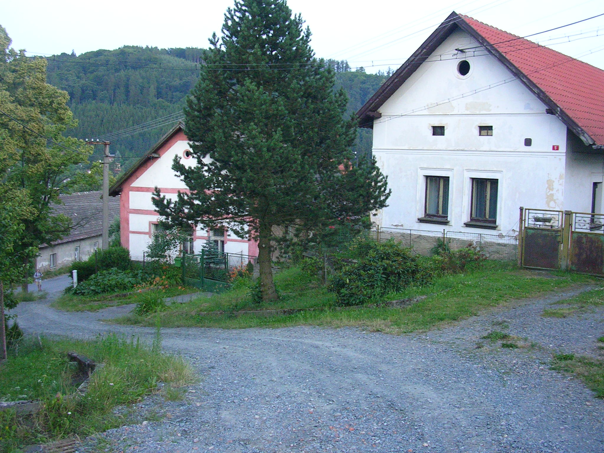 Vlkančice, Central Bohemian Region, the Czech Republic.